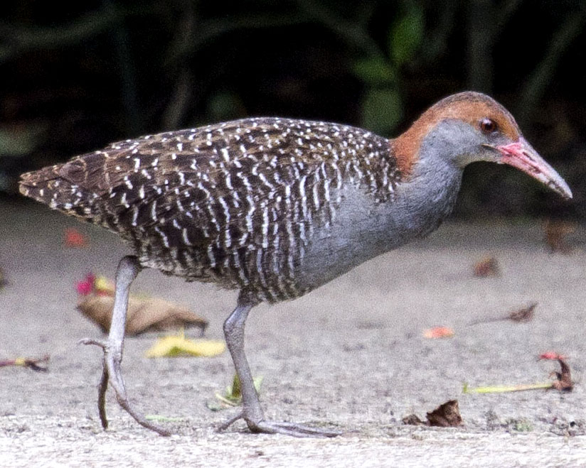 A Slaty-breasted Rail Gallirallus striatus photographed in Malaysia in 2013 by Devon Pike.